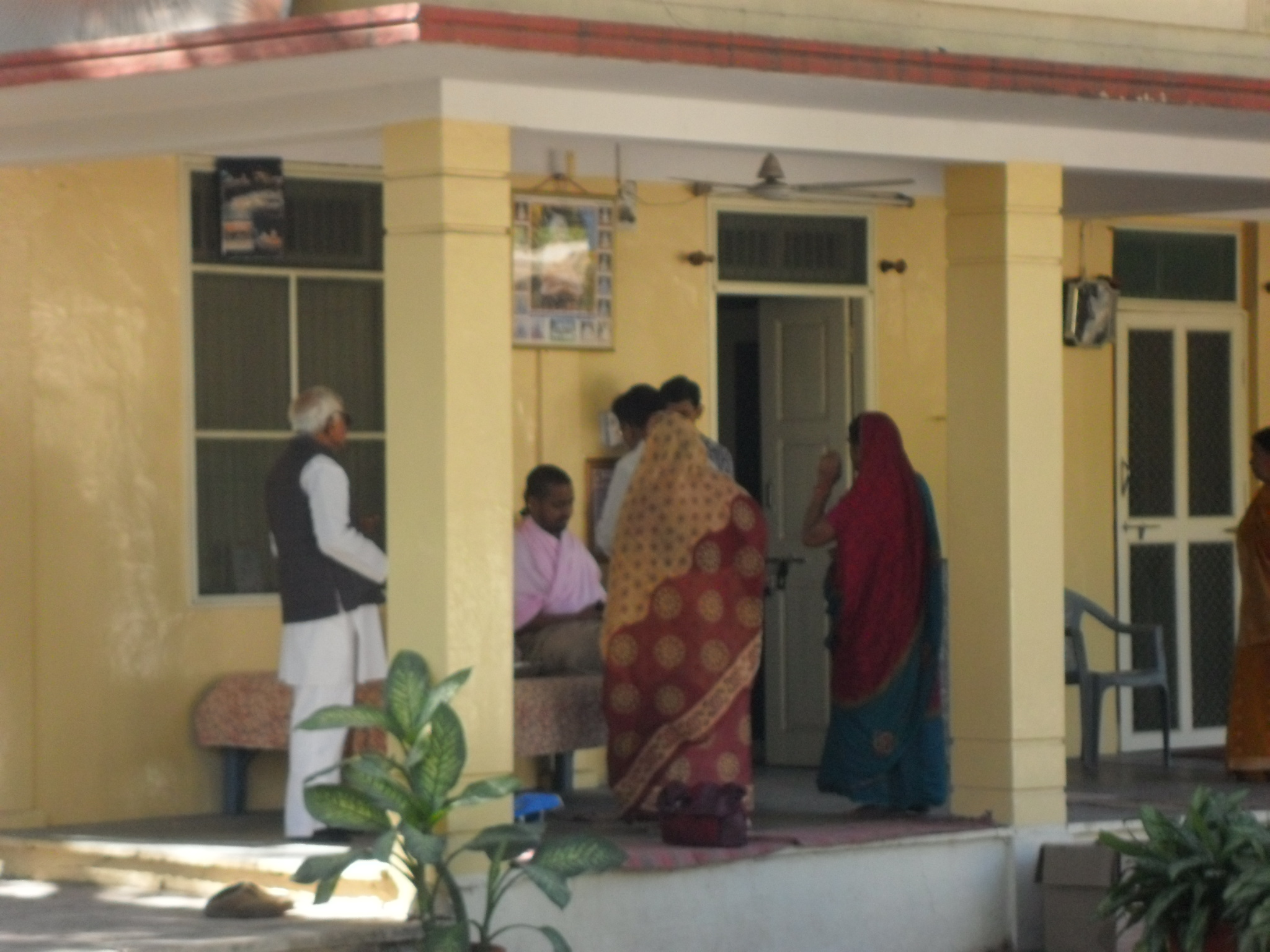 Is a photo of people at Ramdwara